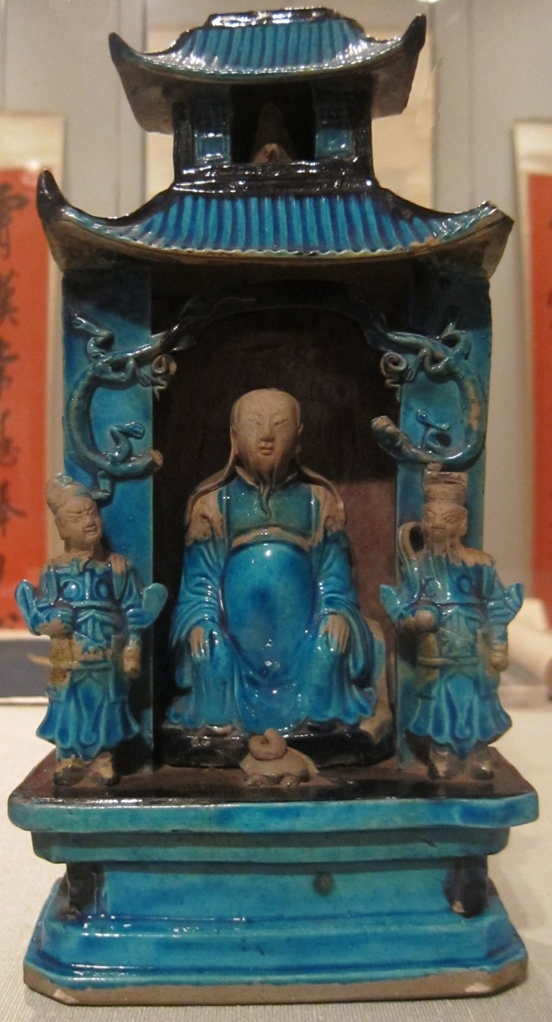 The Star God of Longevity, China, Ming dynasty, 16th century, glazed stoneware, Honolulu Museum of Art accession 6077.1a-b